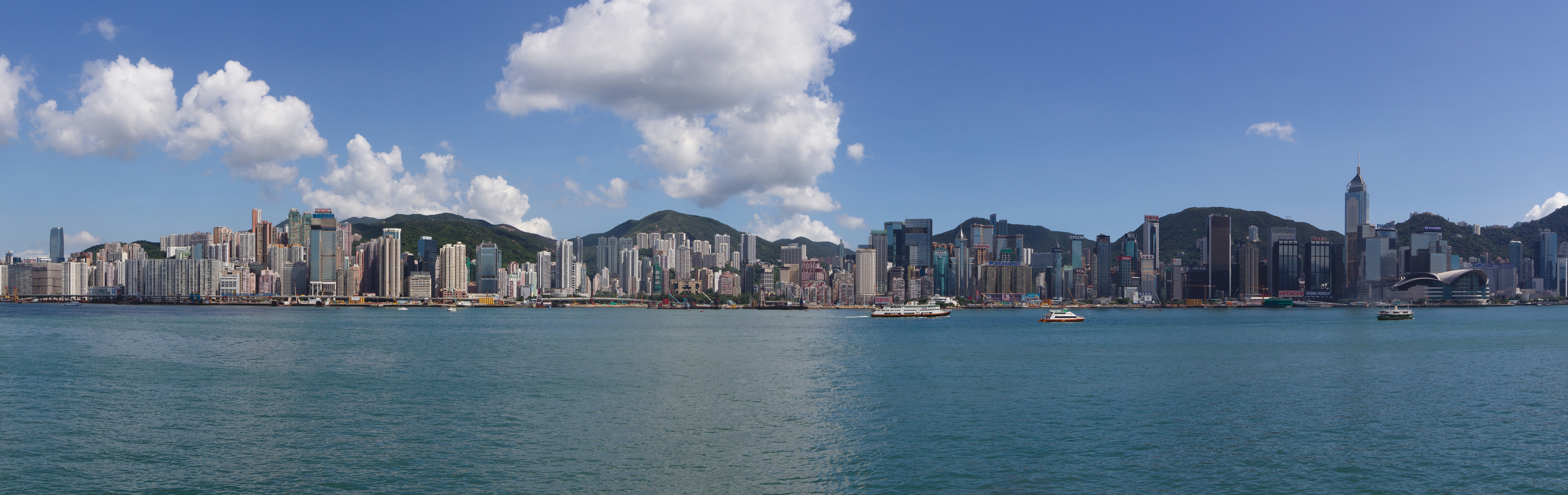 Panoramic view of Hong Kong from North point to Wai Chan, taken from Kowloon.